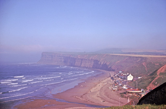 Saltburn-by-the-Sea, Redcar & Cleveland taken 1963 Looking down on Old Saltburn from the cliff top. The outflow from the Skelton Beck can be seen on the beach, with the merry-go-round and other beachside amusements along the sea front towards The Ship Inn, which is on the boundary with the next gridsquare.